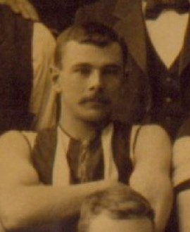 Photograph of Herman Dohrmann in 1896.